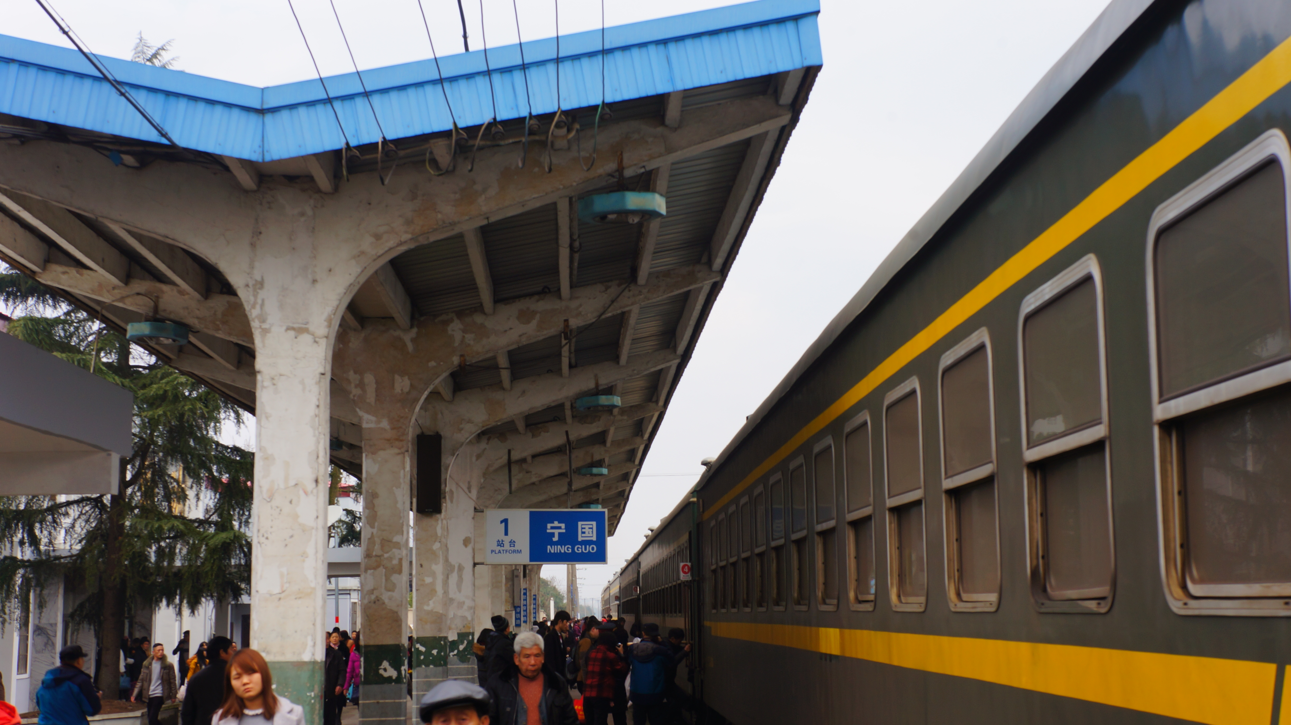 201601 Platform 1 of Ningguo Railway Station